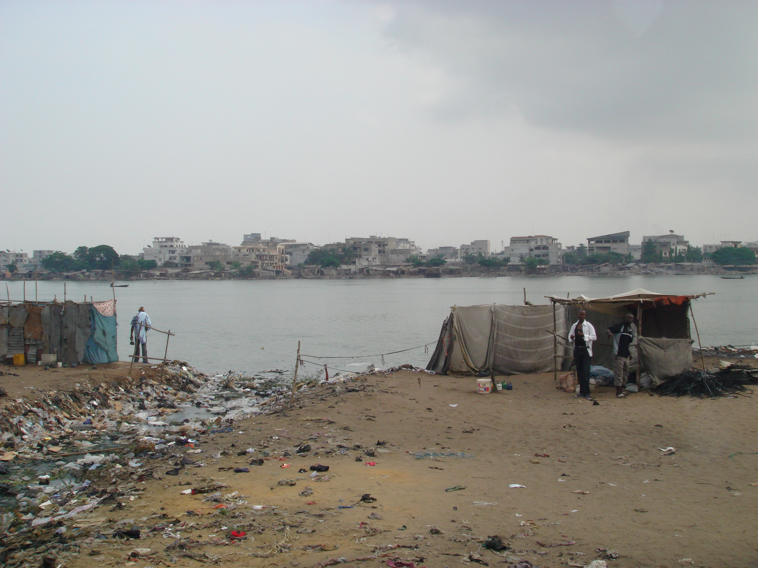 Cotonou, Benin, market